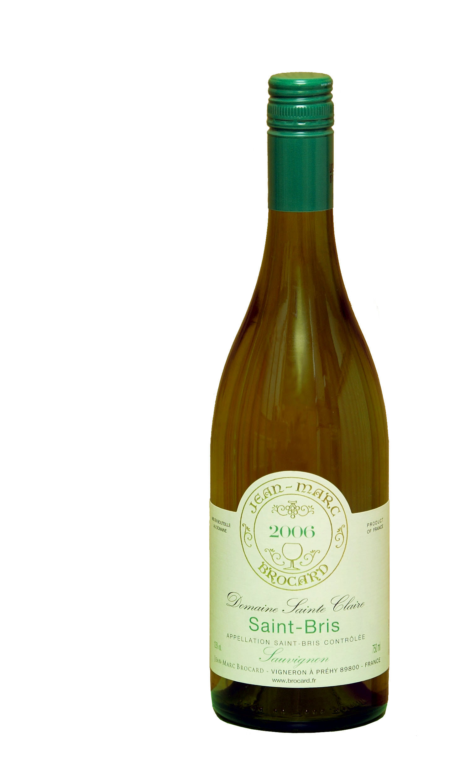 Domaine Sainte Claire Saint-Bris Sauvignon 2006, Jean-Marc Brocard. A Sauvignon blanc wine from Saint-Bris-le-Vineux, Burgundy, France. It obtained AOC in 2003 under the name "Saint-Bris". It is the only Burgundy AOC wine produced from Sauvignon grapes (Sauvignon B and Sauvignon gris G).